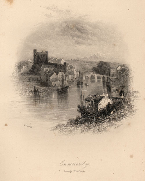 Leitch Ritchie: Ireland picturesque and romantic. With illustrations by Creswick und D. Mc Clise. London, Longman et al. 1837